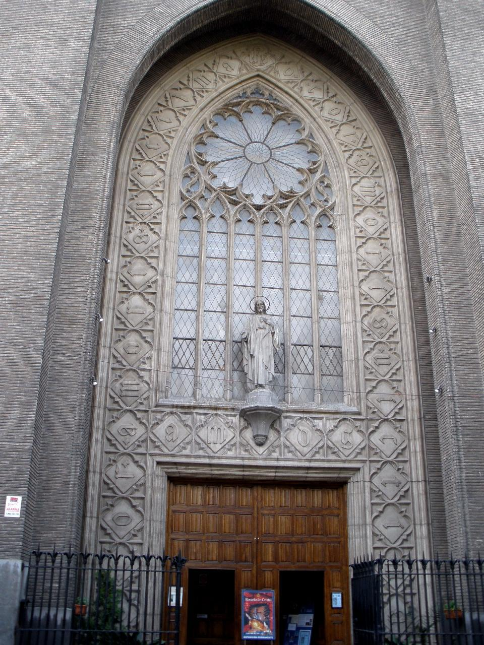 Iglesia del Rosario de Cristal, en Zaragoza (Aragón, España)